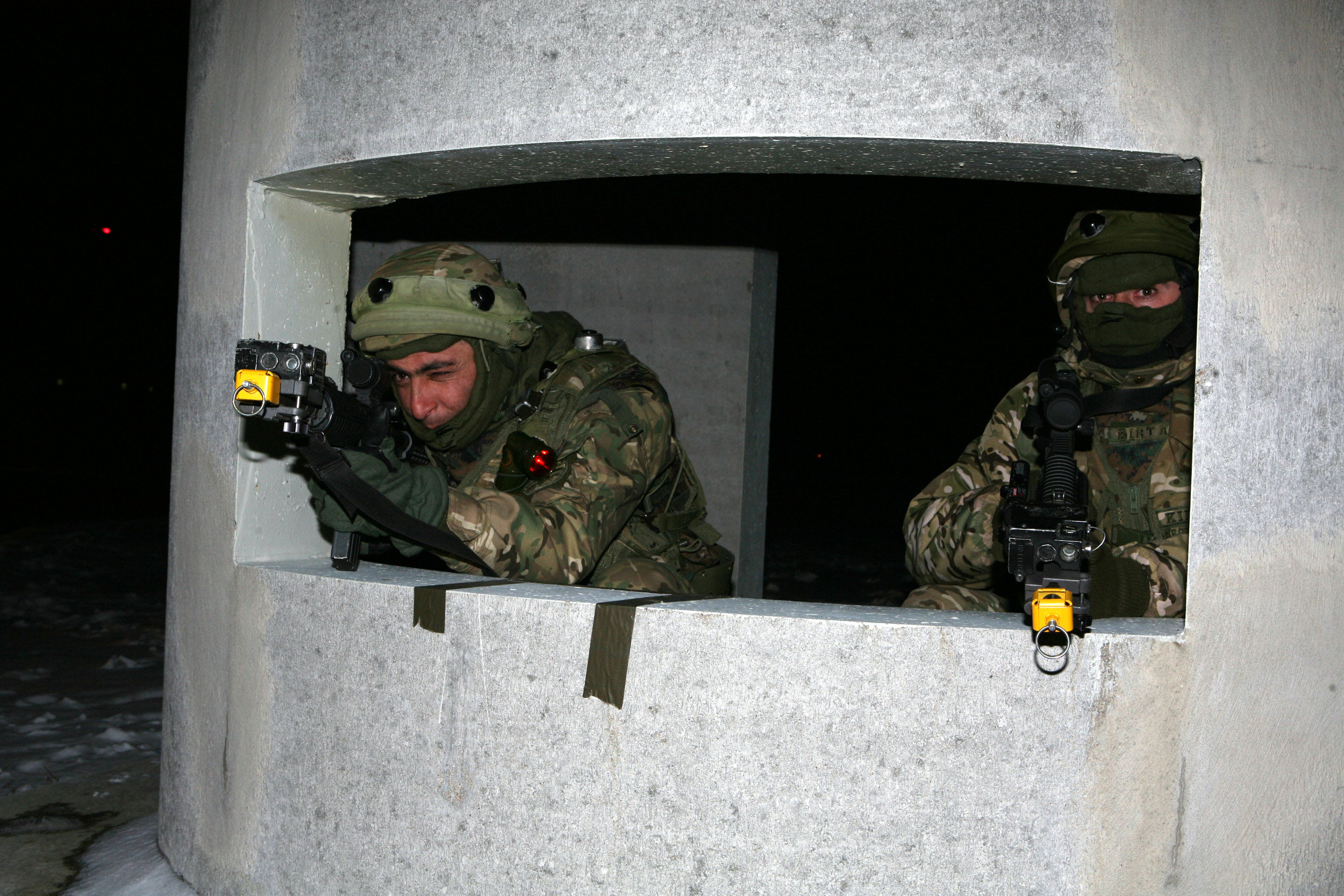 Two Georgian soldiers from the 23rd Light Infantry Battalion keep a watchful eye on the surrounding area after a car bomb detonates at the gates of the unit's Forward Operating Base (FOB) at a mission rehearsal exercise at Joint Multinational Readiness Center Hohenfels, Germany, Feb. 16.